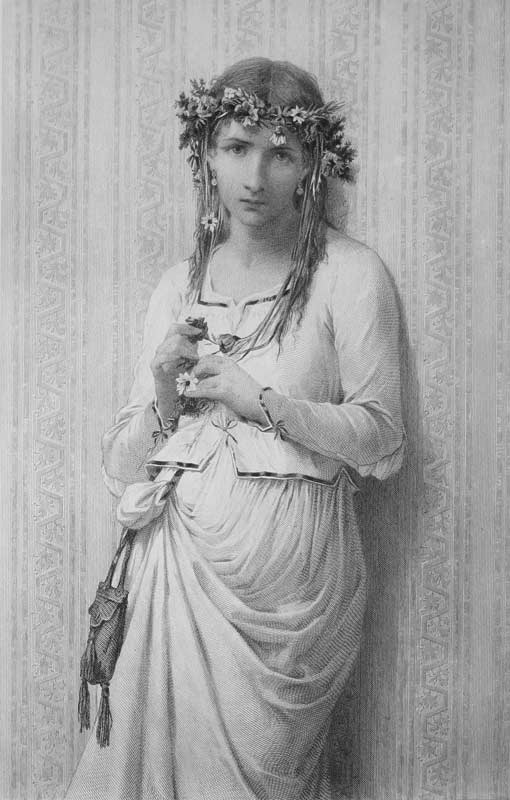 Shakespearean character "Ophelia"